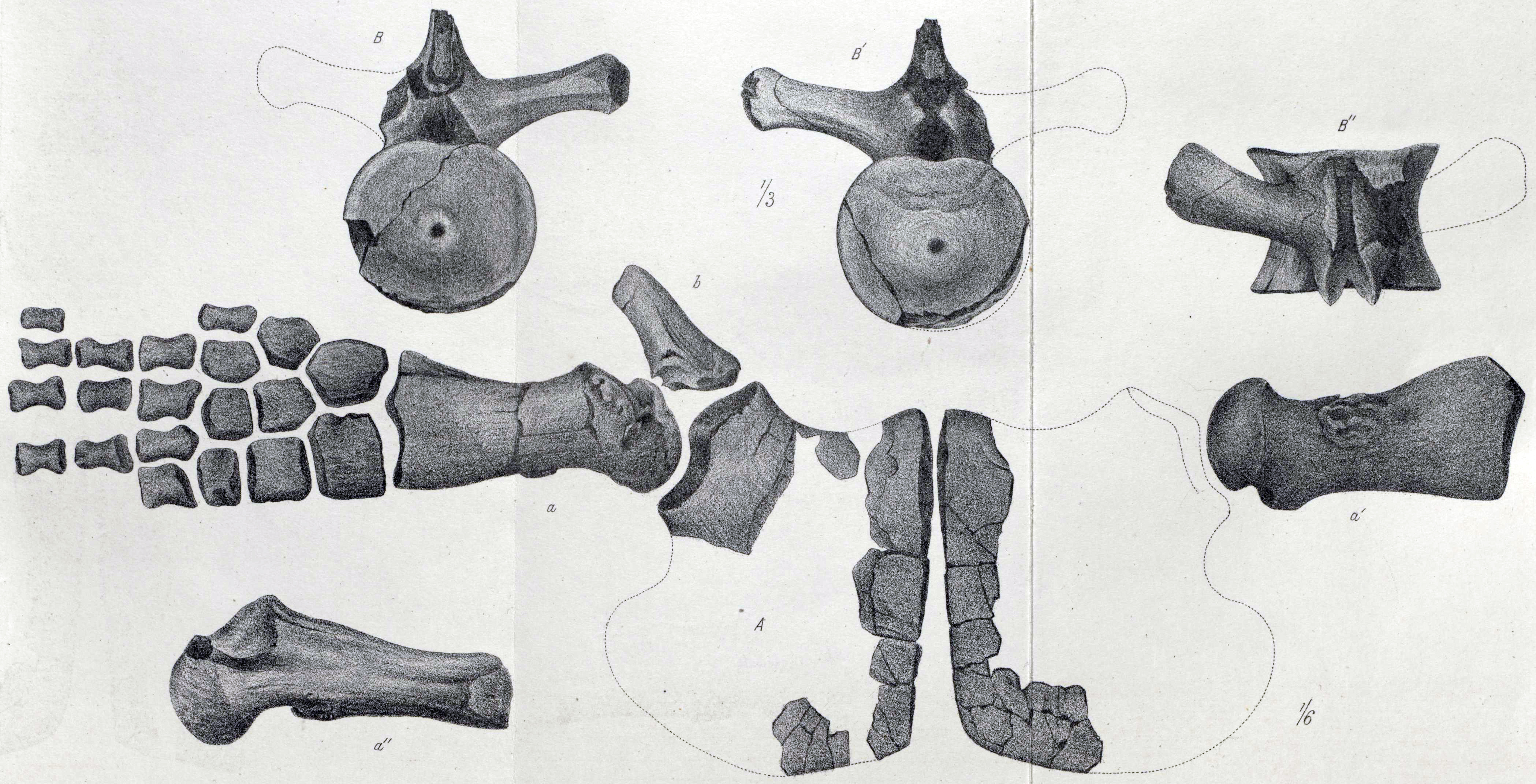 Mauisaurus Haastii. n. sp. Transactions and Proceedings of the Royal Society of New Zealand Volume 6, 1873